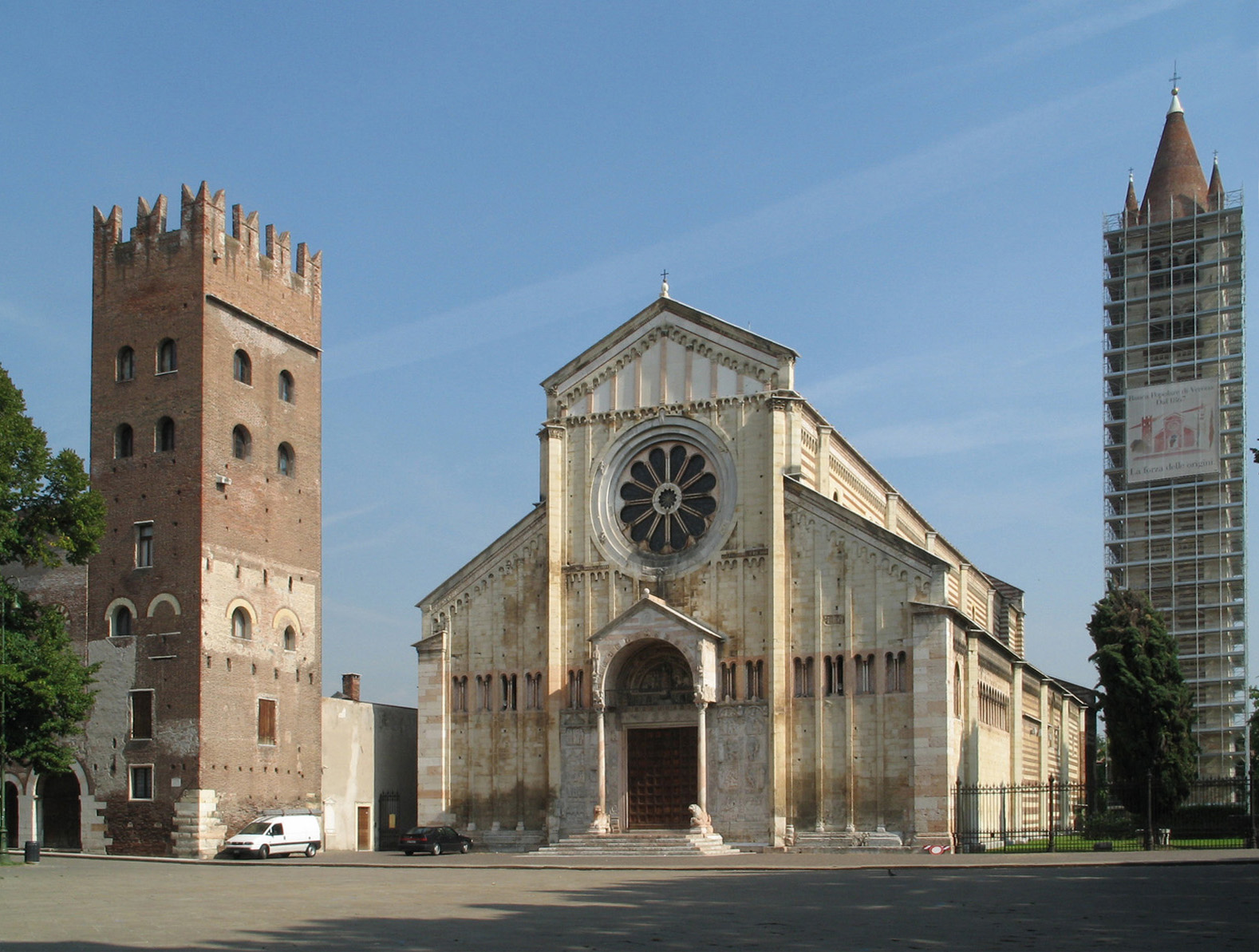 Basilica San Zeno Maggiore, located in the town of Verona/Italy